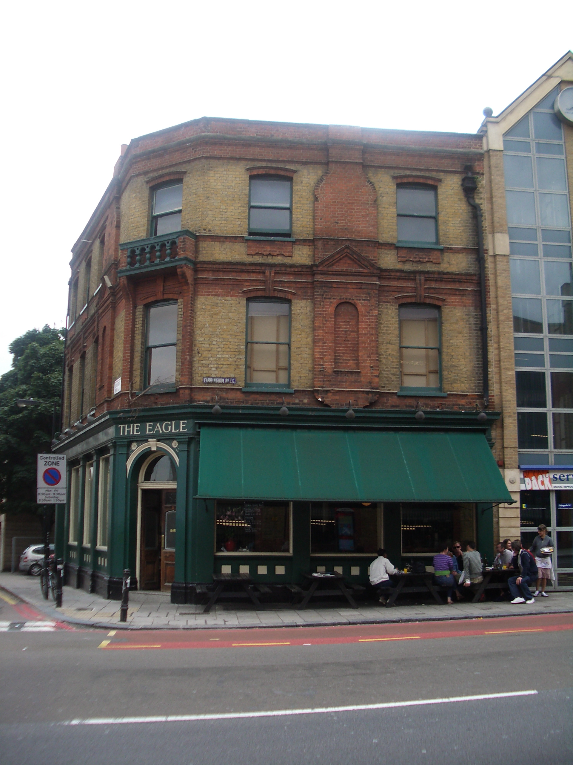 The Eagle, the first gastropub, Clerkenwell, London, 2005.